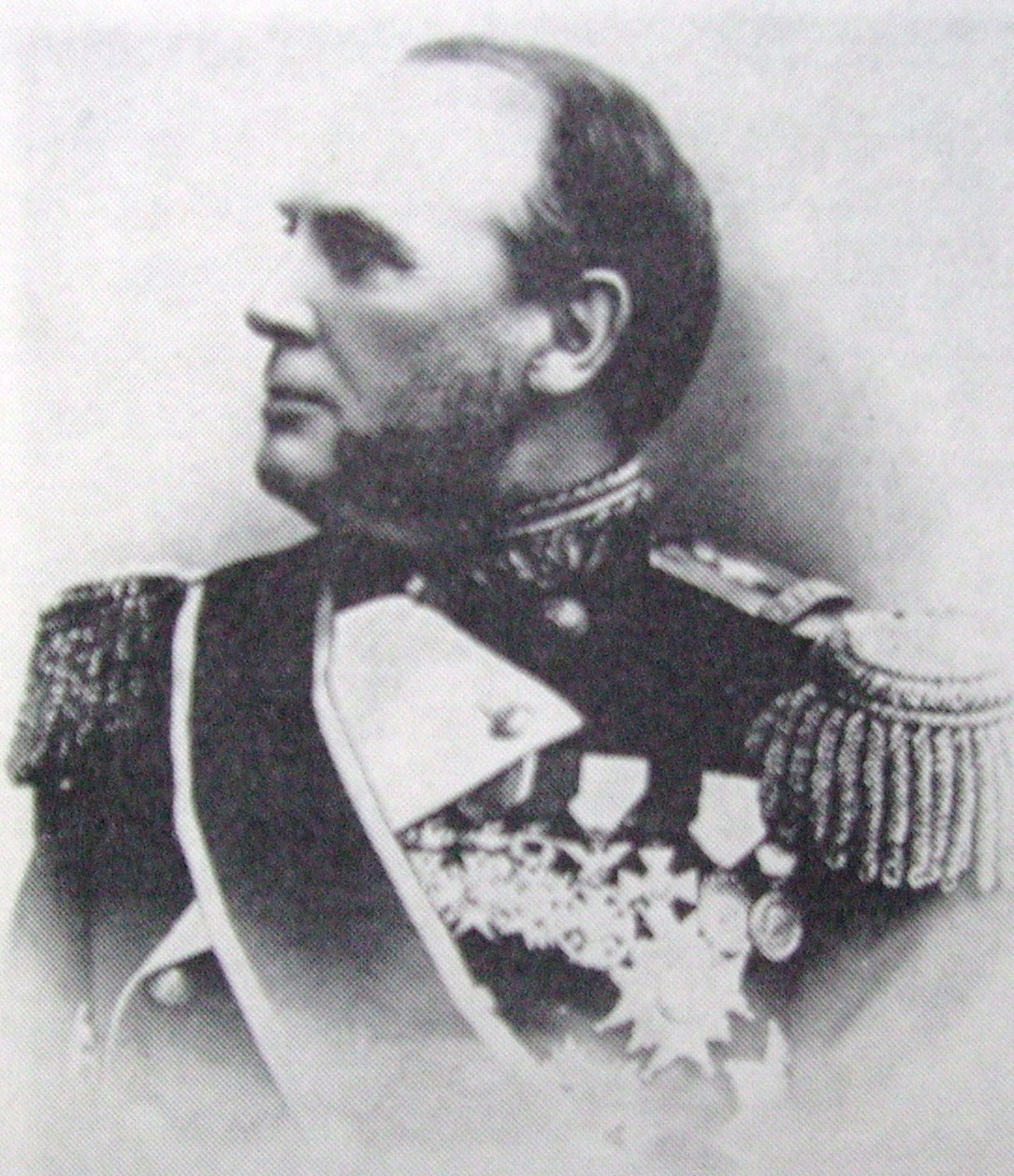 Picture of J.C.E. Christerson, Swedish politician